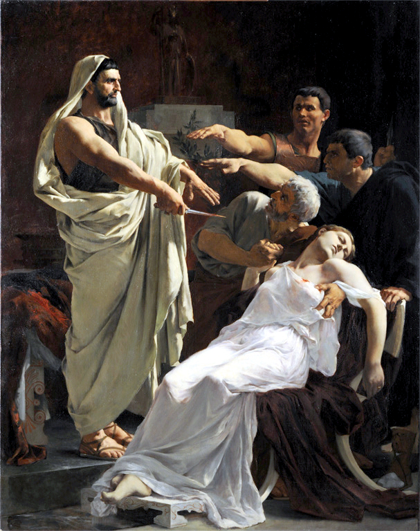 Henri Pinta (1856-1944), The oath of Brutus after the death of Lucretia, 1884, oil on canvas, Paris, Ecole Nationale Supérieure des Beaux-Arts